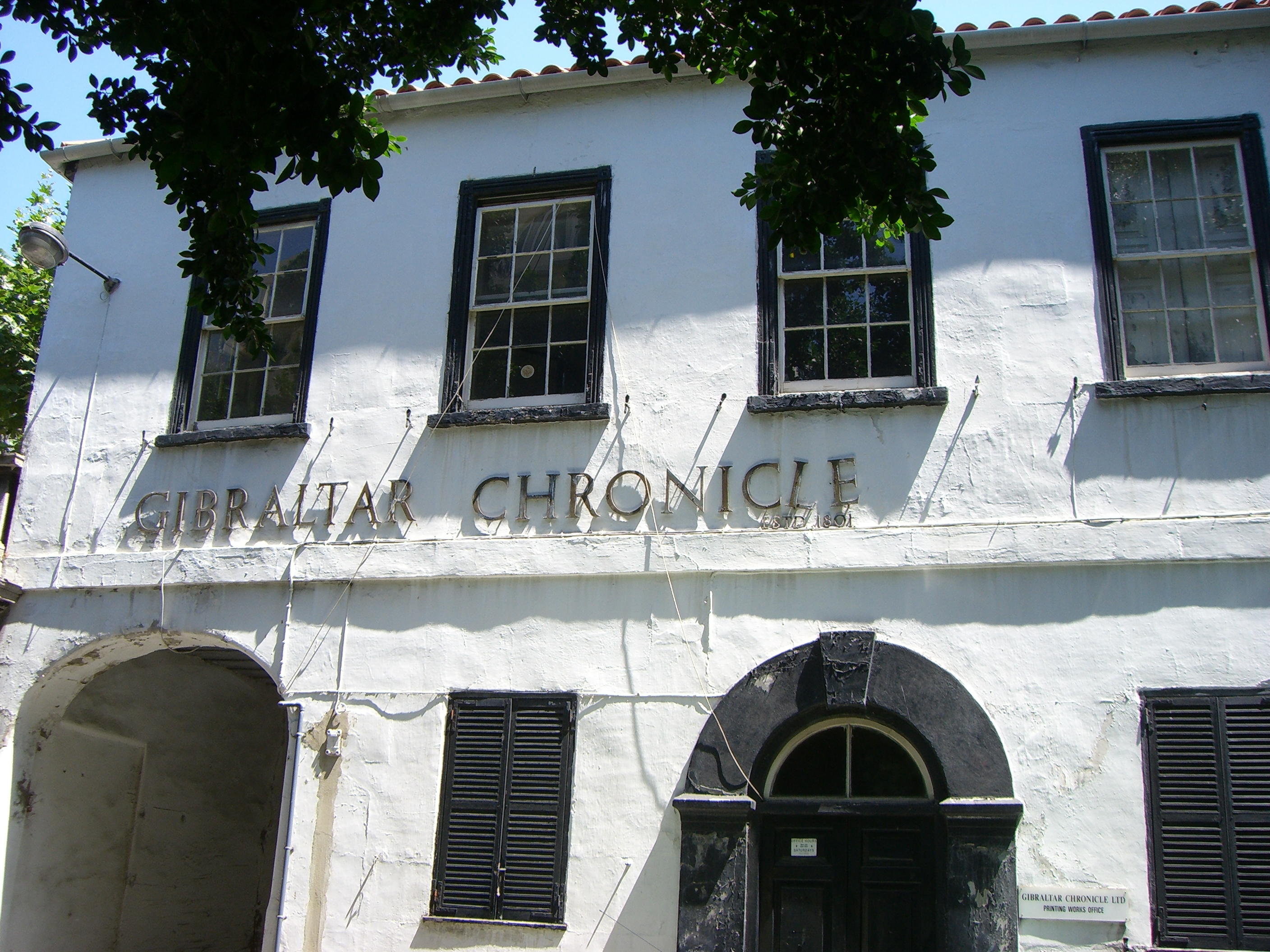 Gibraltar Chronicle printers, Governor's Parade